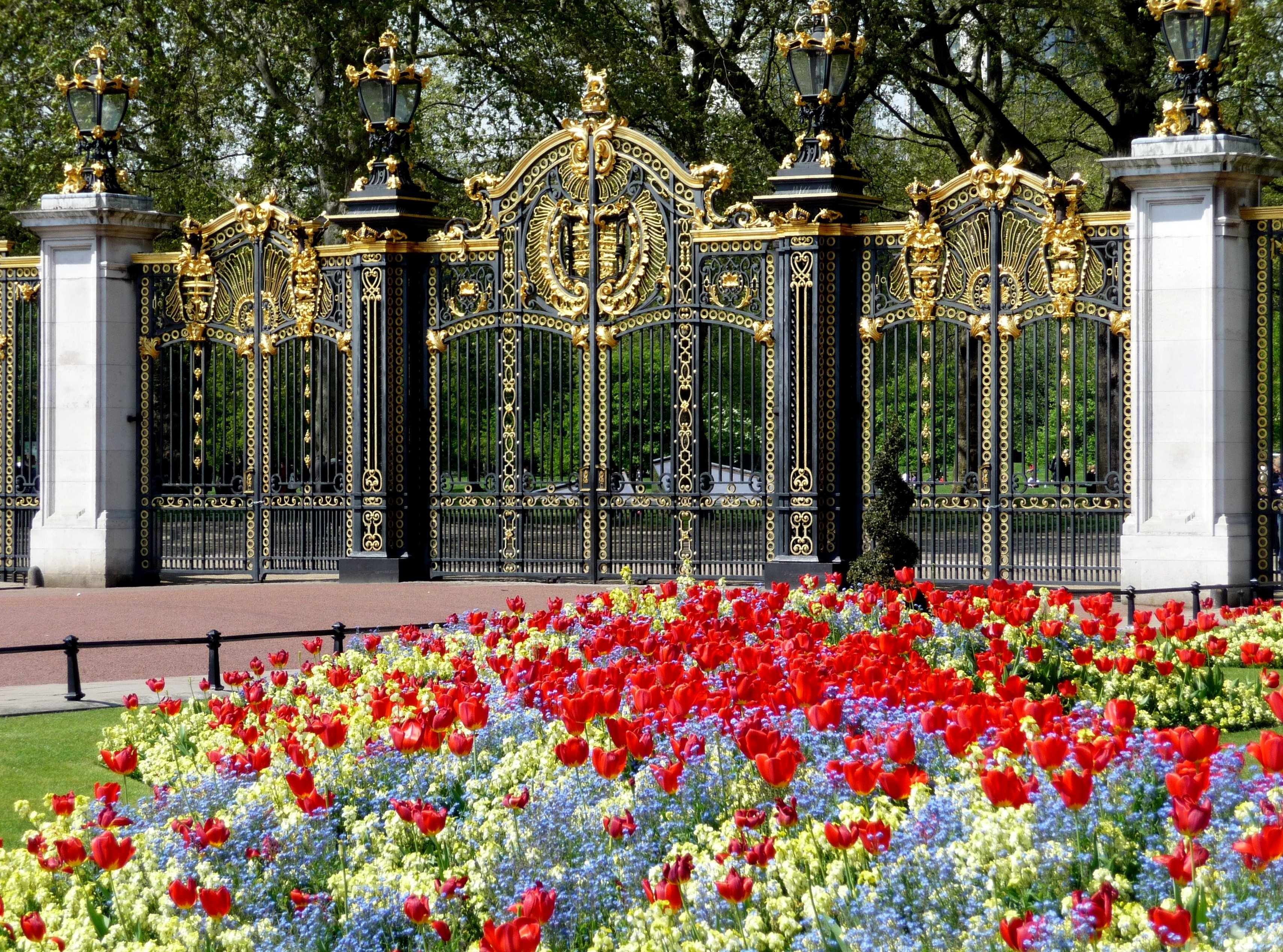 Flower beds at Canada Gate to Green Park from The Mall in London